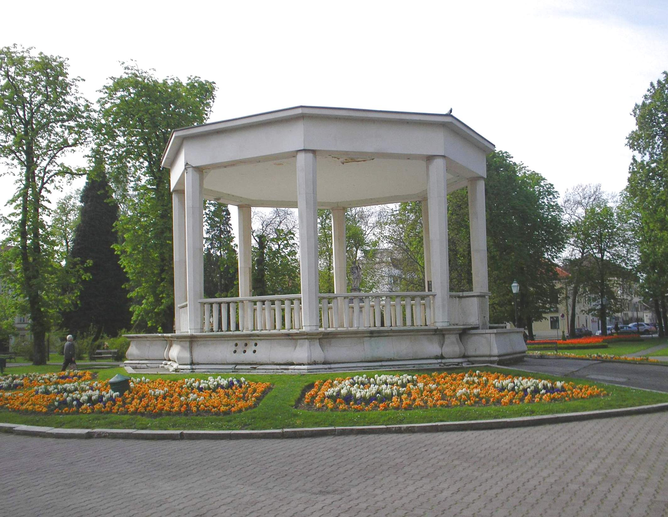 Pavillion, Bjelovar, CroatiaHrvatski: Paviljon od bračkog kamena iz 1943., u središnjem parku - najveći kameni paviljon u Europi